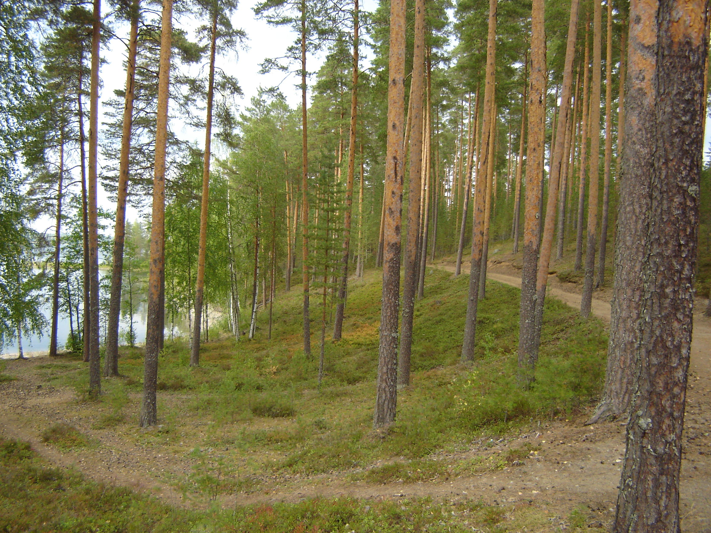 Scots Pine forest near Punkaharju, Finland